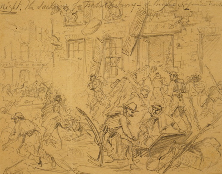 The sacking of Fredericksburg by the Union troops. Title inscribed above image: Night. The sacking of Fredericksburg-- & biovace [sic] of Union troops. Inscribed lower left: Bivouac. Inscribed on building left margin as identifier: BANK OF VIRGINIA. Inscribed on verso: Friday Night in Fredericksburg. This night the city was in the wildest confusion sacked by the union troops - houses burned down furniture scattered in the streets - men pillaging in all directions a fit scene for the French revolution and a disgrace [sic]to the Union Arms this is my view of what I saw. Lumley.